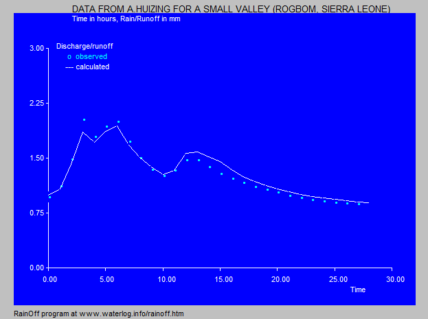 Rainfall-runoff relation simulated by a non-linear reservoir model, Rogbom valley, Sierra Leone